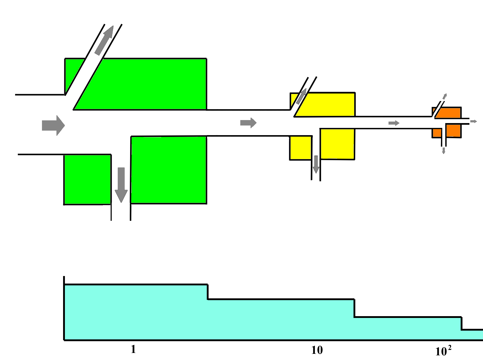 Illustration depicting energy flow through a food chain with the log transformative energy levels illustrated below. Notations: I=ingestion; A=assimilation; NU=not utilized; R=respiration; P=production; B=biomass